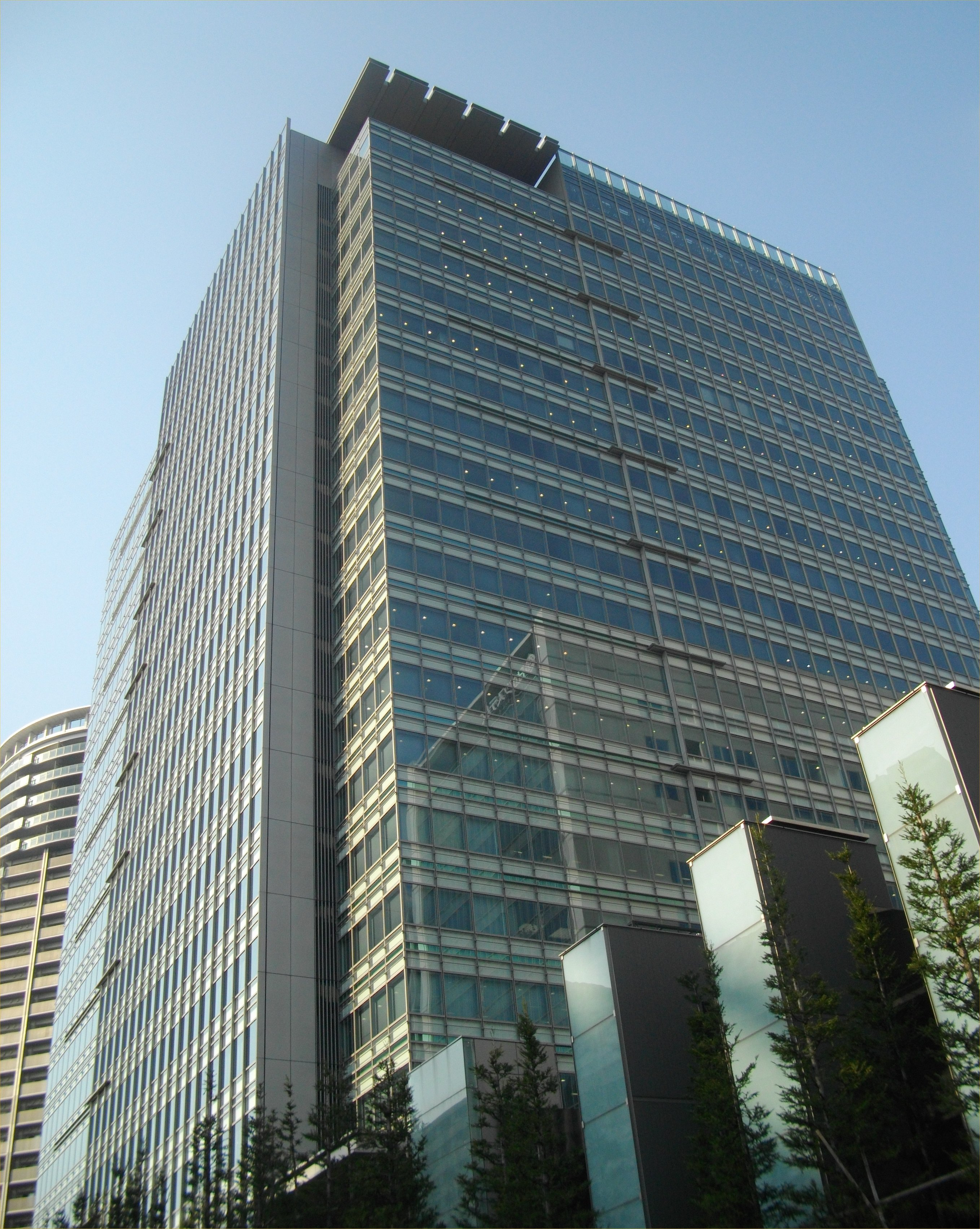 A photo of Art Village Osaki Central Tower(a office building in Tokyo.)Osaki,Shinagawa-ku,Tokyo,Japan.